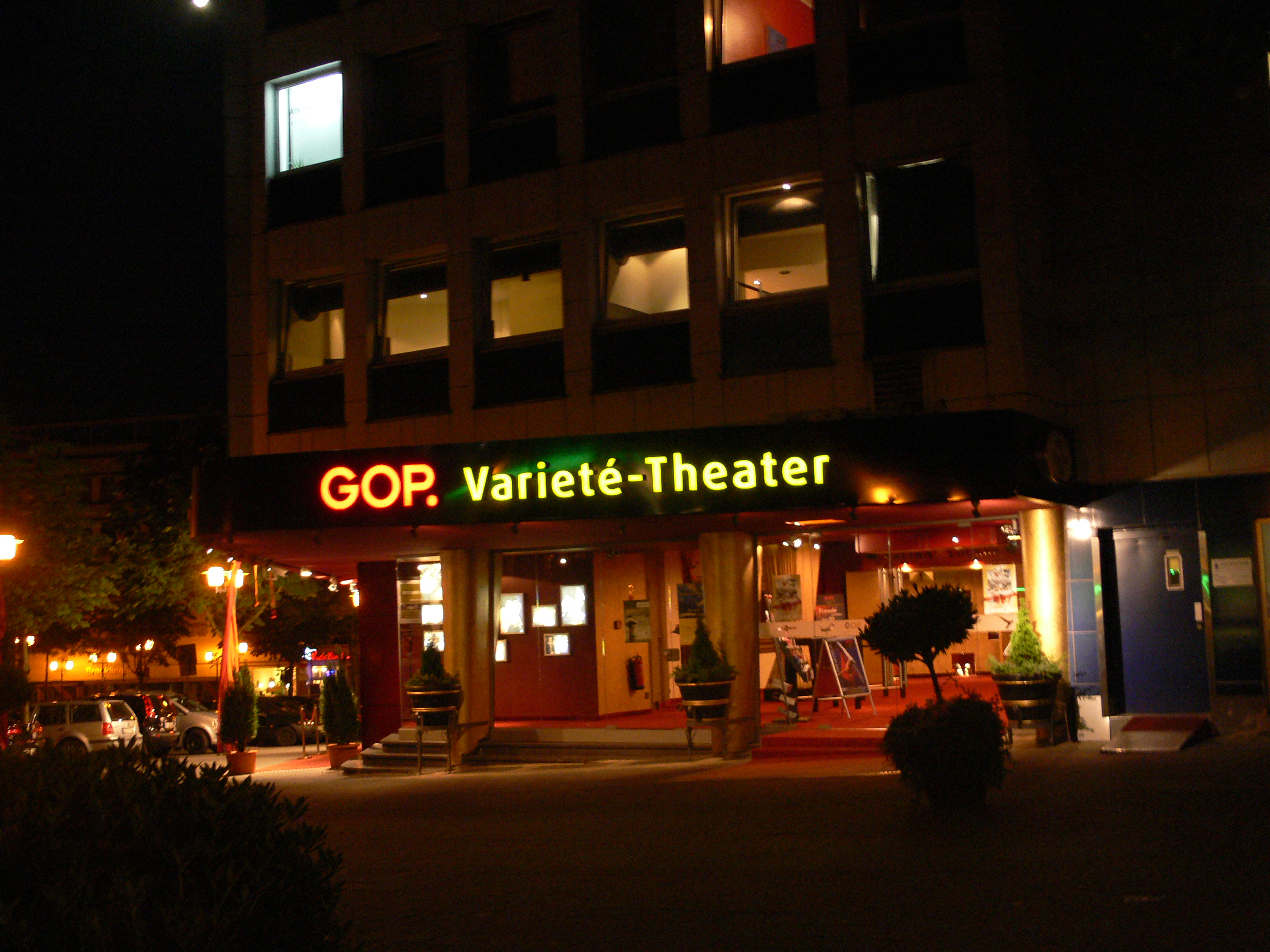 GOP variety theatre, Essen, Germany.